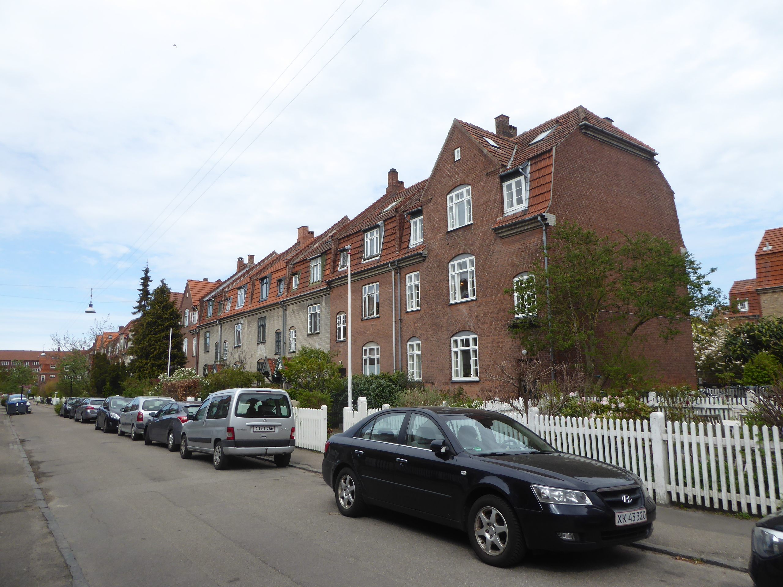 Apartment buildings at Rudolph Berghs Gade in Østerbro in Copenhagen.